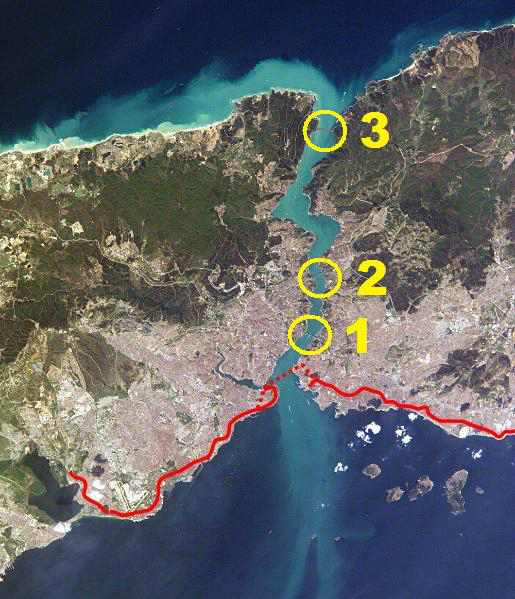 Turkey. Path of the rail tunnel project (red dotted line) in the Marmaray railway, across the Bosphorus strait. Yellow the bridges over the Bosphorus (chronologically): 1 The Bosphorus Bridge, 2 The Fatih Sultan Mehmet Bridge, 3 The Yavuz Sultan Selim Bridge.